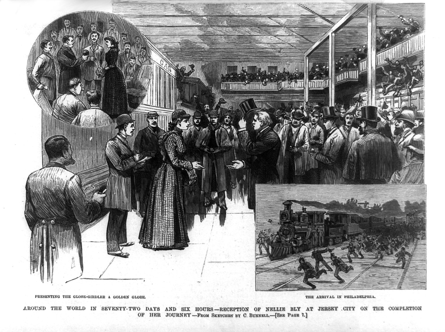 Illustration of Elizabeth Cochrane, aka Nelly Bly, in Frank Leslie's Illustrated Newspaper, 1890. Caption reads: "Around the world in seventy-two days and six hours - reception of Nellie Bly at Jersey City on the completion of her journey." Includes two vignettes (inset) titled: "Presenting the Globe-Girdler a Golden Globe" and "The Arrival in Philadelphia."